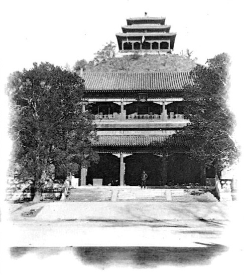 Image from La Chine à terre et en ballon.